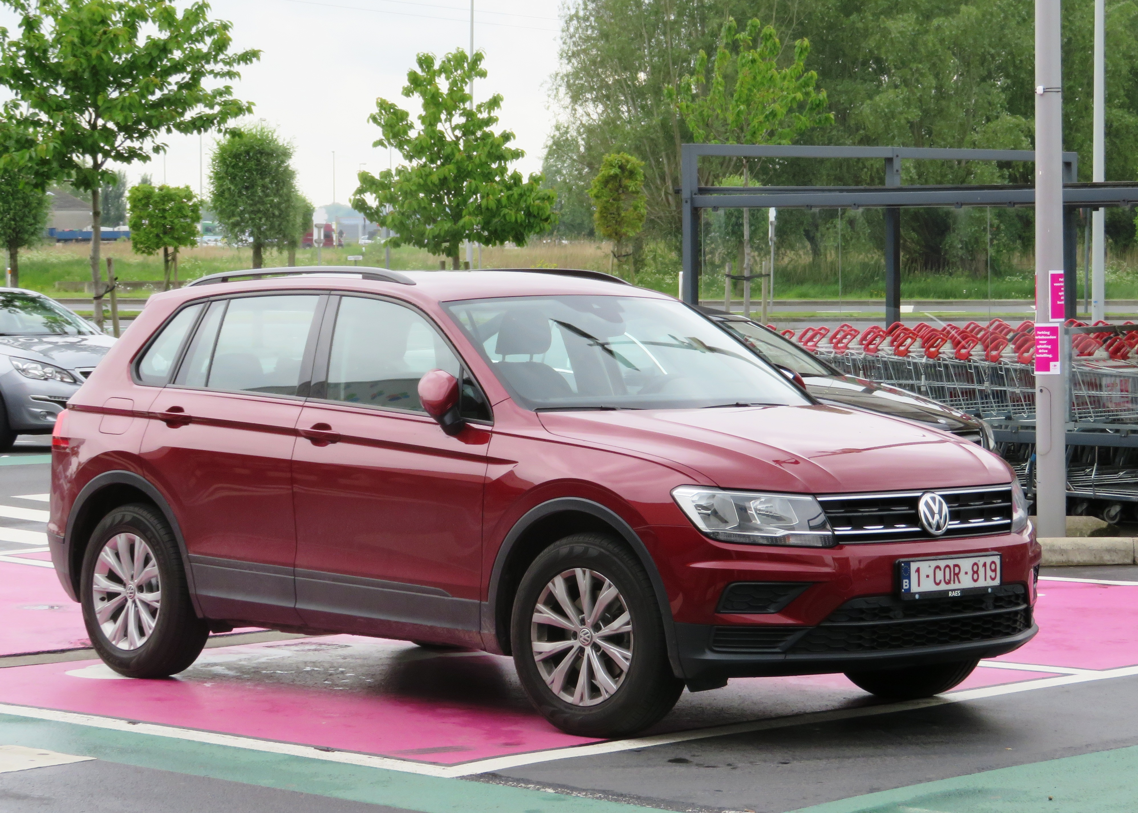 Volkswagen Tiguan in Belgium on interestingly painted parking slot